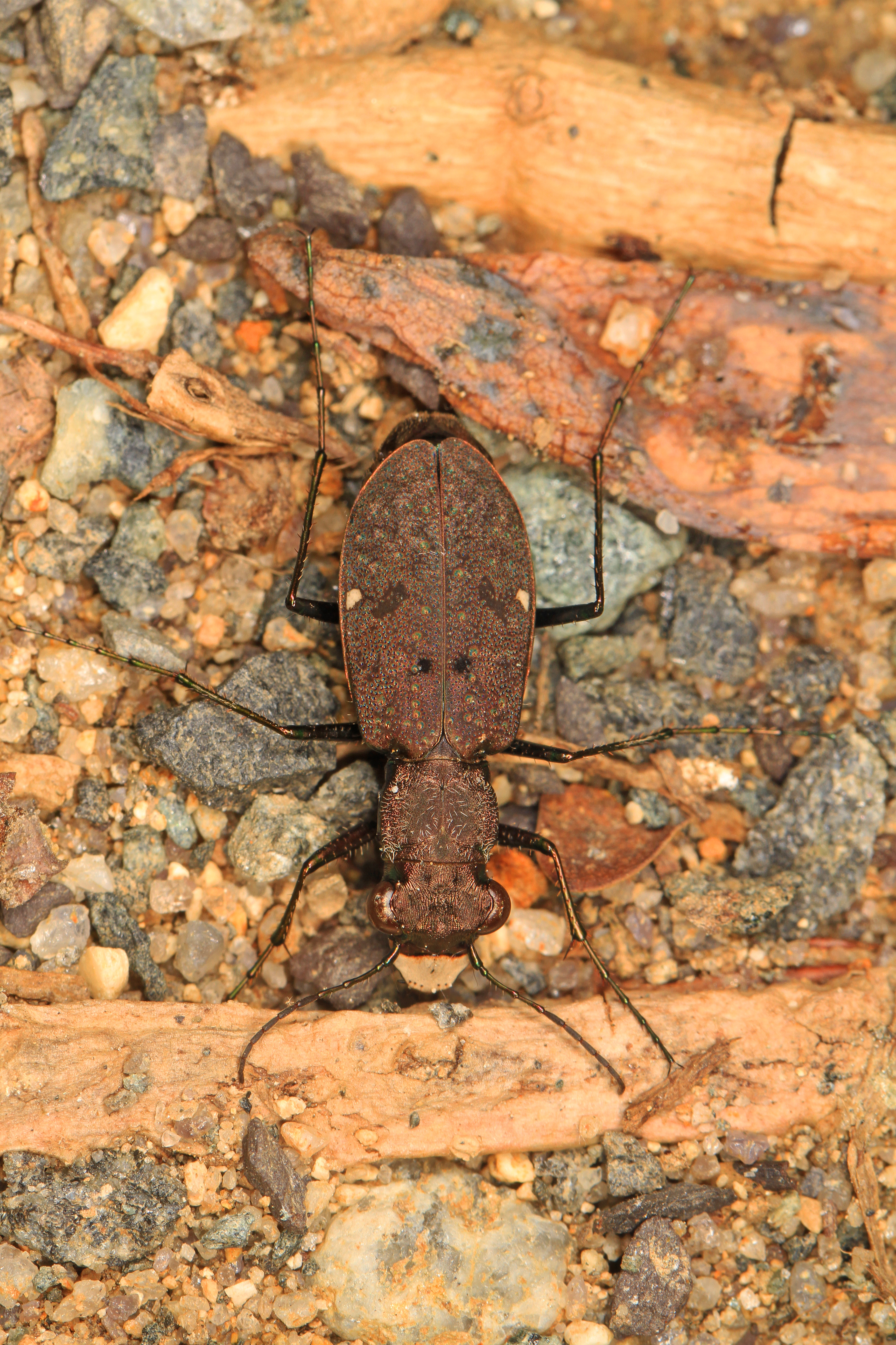 One-spotted Tiger Beetle - Cylindera unipunctata, Prince William Forest Park, Triangle, Virginia.